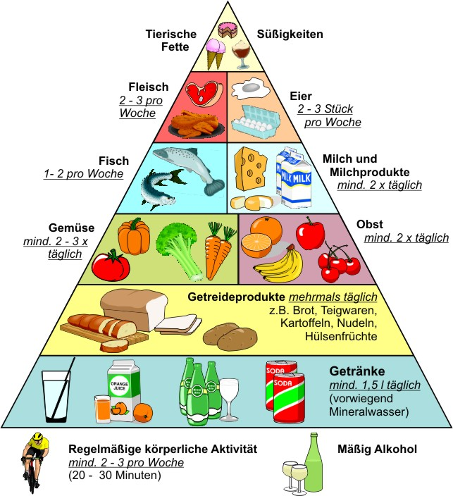 Food Pyramid